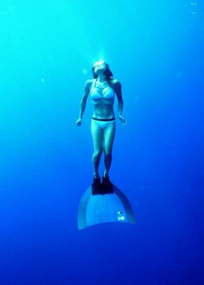 Woman free diving with a monofin, cropped version (related flickr-comment: This image was taken by aquaxel in the waters of Cyprus; according to the author, the freediver's name is JUNKO, Junko Kitahama)